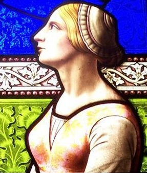 Margaret Sandbach (1812-1852) poet and author, and patron of the sculptor, John Gibson. Granddaughter of William Roscoe MP. Wife of Henry Robertson Sandbach of Hafodunos, Llangernyw, North Wales.